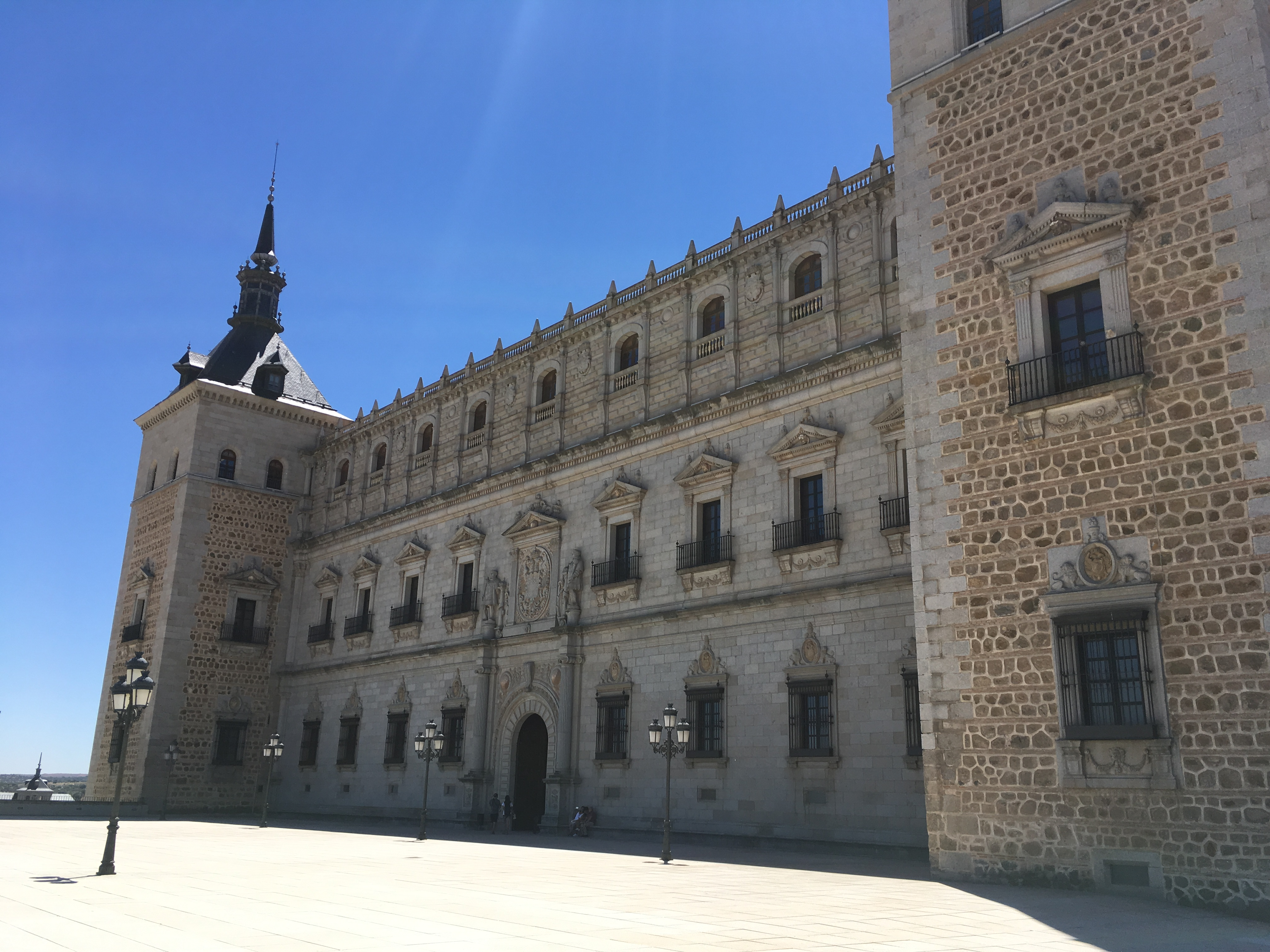 Northern facade of the Alcazar of Toledo (Spain)